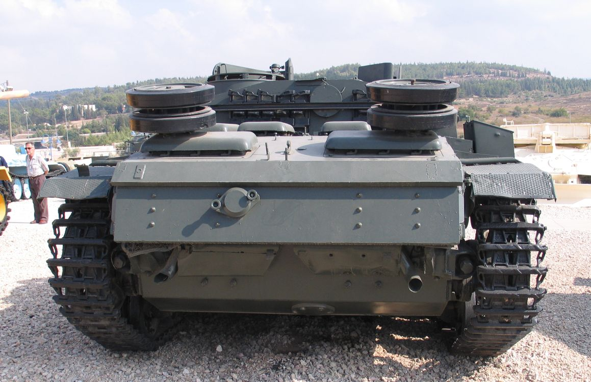 Rear of the Sturmgeschütz III Ausf G, captured from the Syrian Army, in Yad la-Shiryon Museum, Israel.